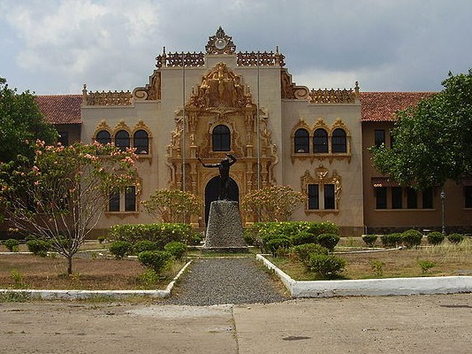 This is the Escuela Normal de Santiago named Escuela Normal Juan Demostenes Arosemena in Santiago de Veraguas, Panama.